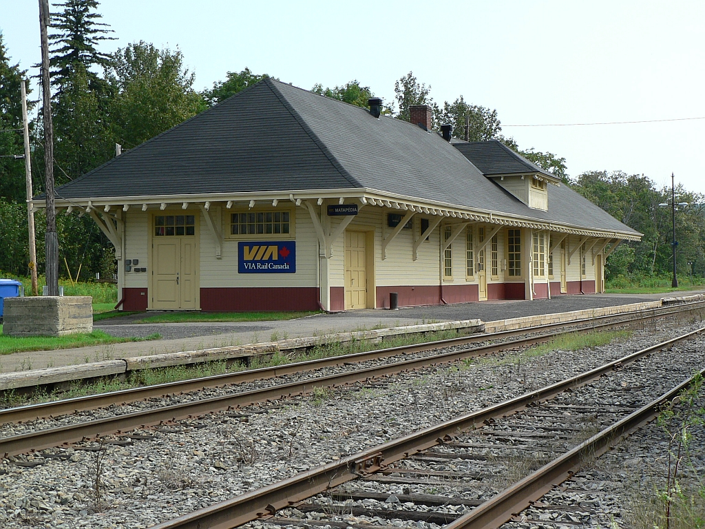 The Via Rail station in Matapédia, Québec, Canada.